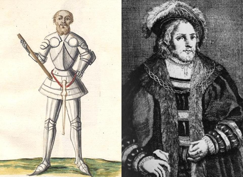 Louis VII, duke of Bavaria-Ingolstadt (on the left) and his cousin Henry XVI, duke of Bavaria-Landshut (on the right).